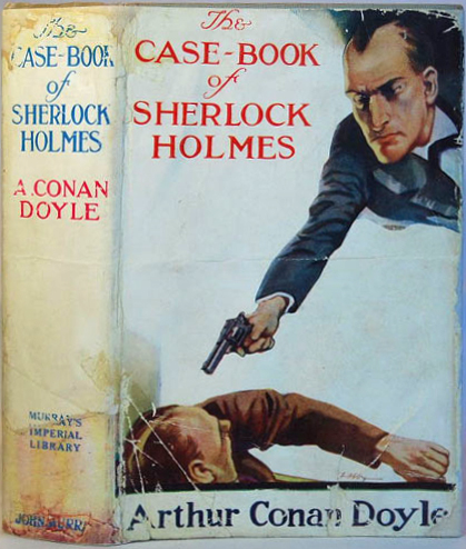 Arthur Conan Doyle, The Case-Book of Sherlock Holmes (1927), Cover Edition